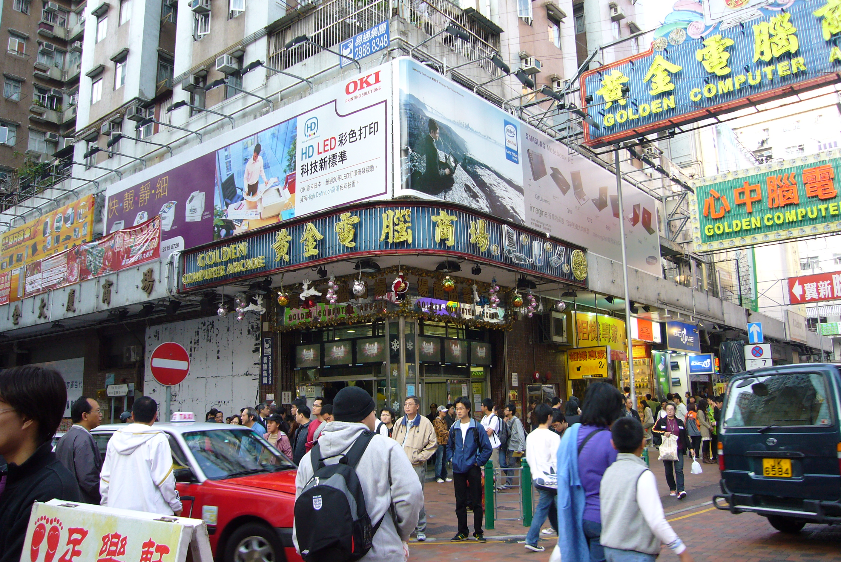 Golden Shopping Center